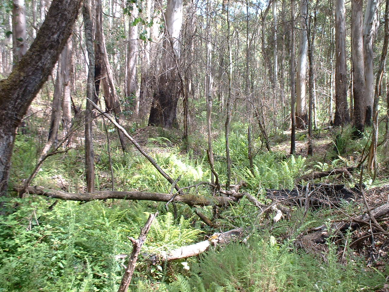 Stringybark Creek, near Tolmie, Victoria, Australia. Near the site where three policemen were murdered in 1878 by bushranger Ned Kelly